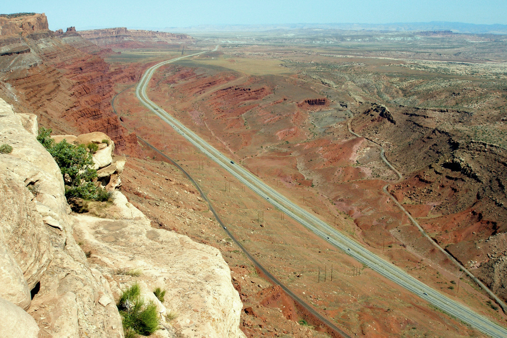 Moab, Utah, USA, Gold Bar Rim, looking north along U.S. Route 191